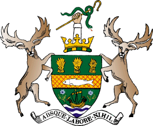 Coat of arms of Down County Council, Northern Ireland. Obsolete since 1973.